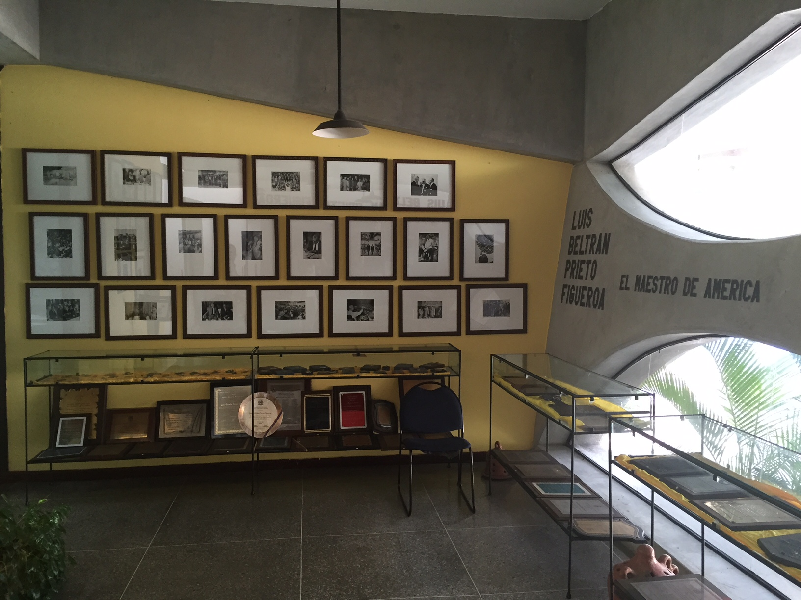 Sala Luis Beltrán Prieto Figueroa de la Biblioteca Loreto Prieto Higuerey, La Asunción, Nueva Esparta, Venezuela.